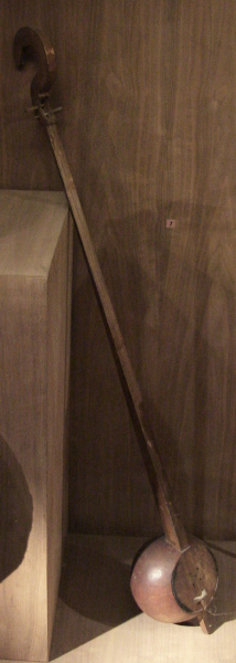 Tinh, a musical instrument of some ethnic groups in Northern mountainous region in Vietnam.